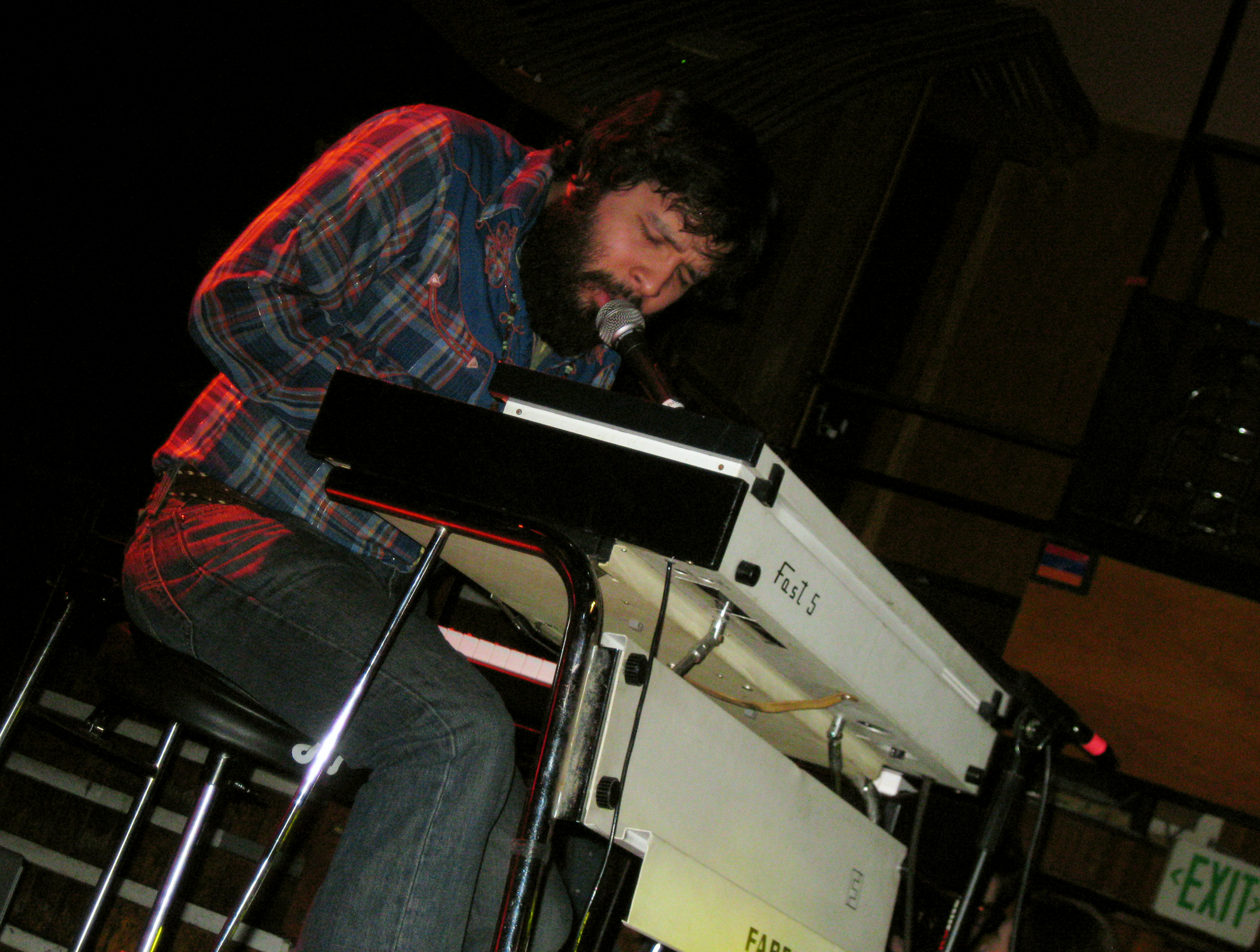 Hacienda (San Antonio, Texas) performing at the Troubadour, 14 January, 2010. Farfisa FAST5